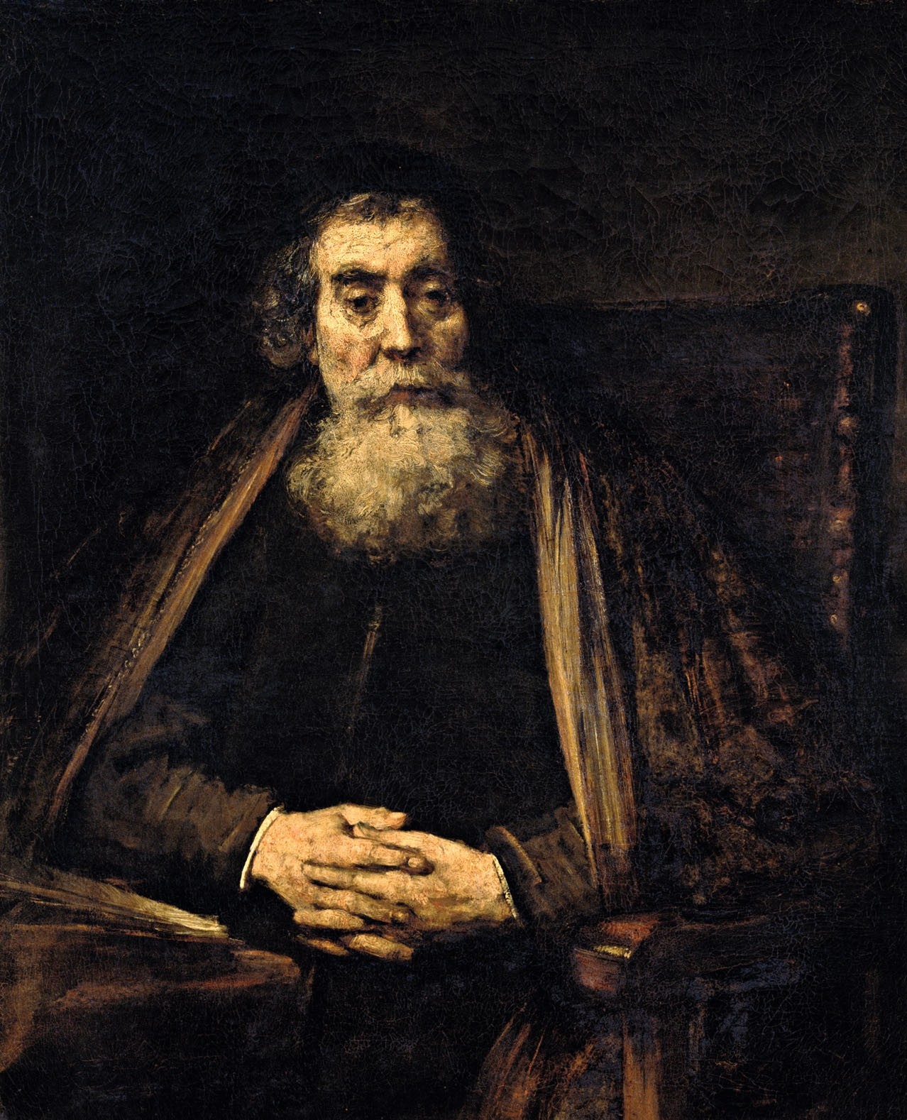 Old man in an armchair, possibly a portrait of Jan Amos Comenius, Rembrandt van Rijn, c. 1665, Galleria degli Uffizi